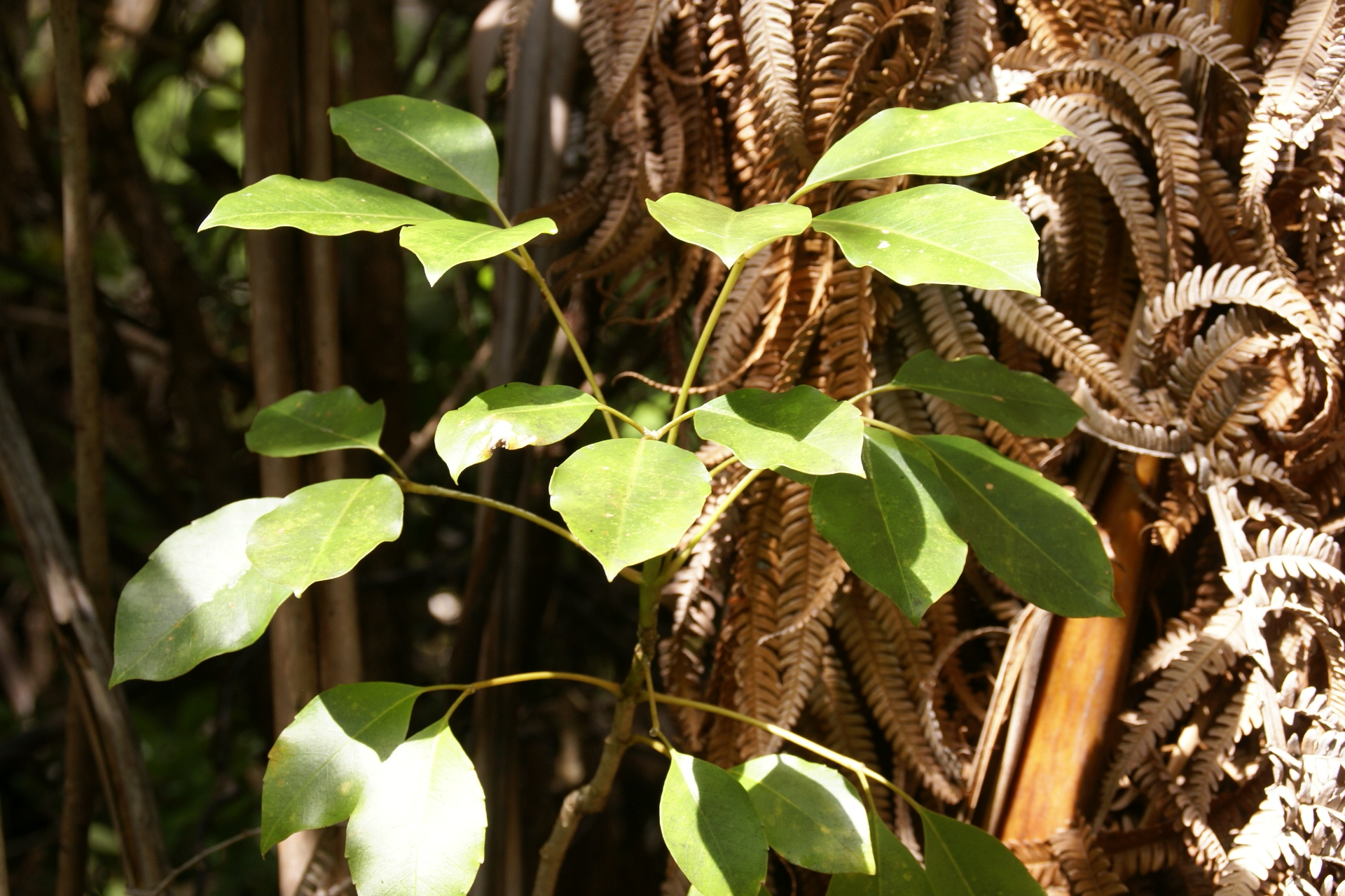 Pilo (Coprosma ochracea) at Iki Lookout in Hawaii Volcanoes National Park, Hawaii, Hawaii, USA